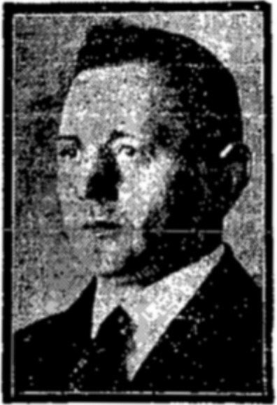 Max Jahn (1881-1954), German politician